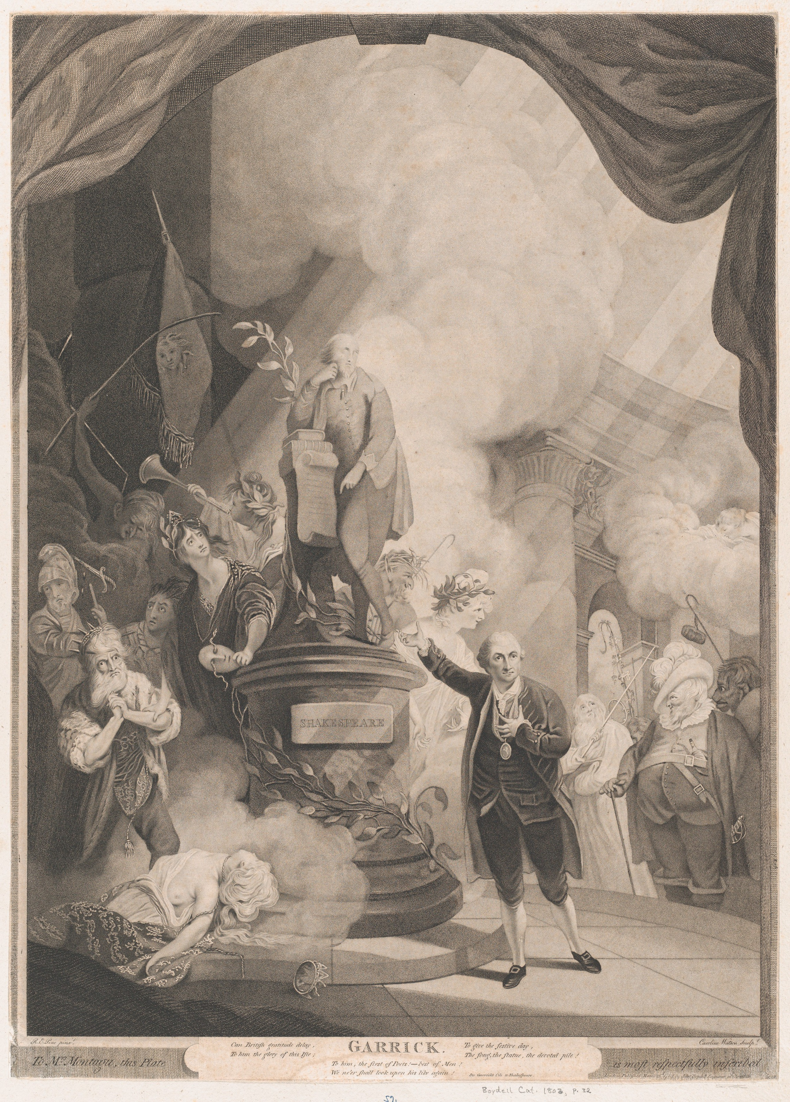 Print; Prints